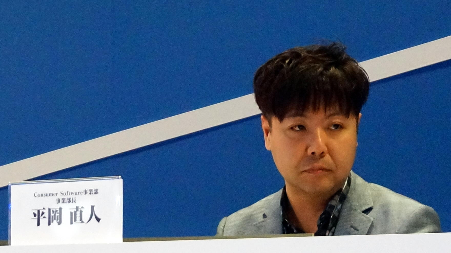 中文（台灣）: 2019台北國際電玩展世貿一館展區，Atlus Consumer Software事業部事業部長平岡直人出席Sega Games攤位舞台活動。